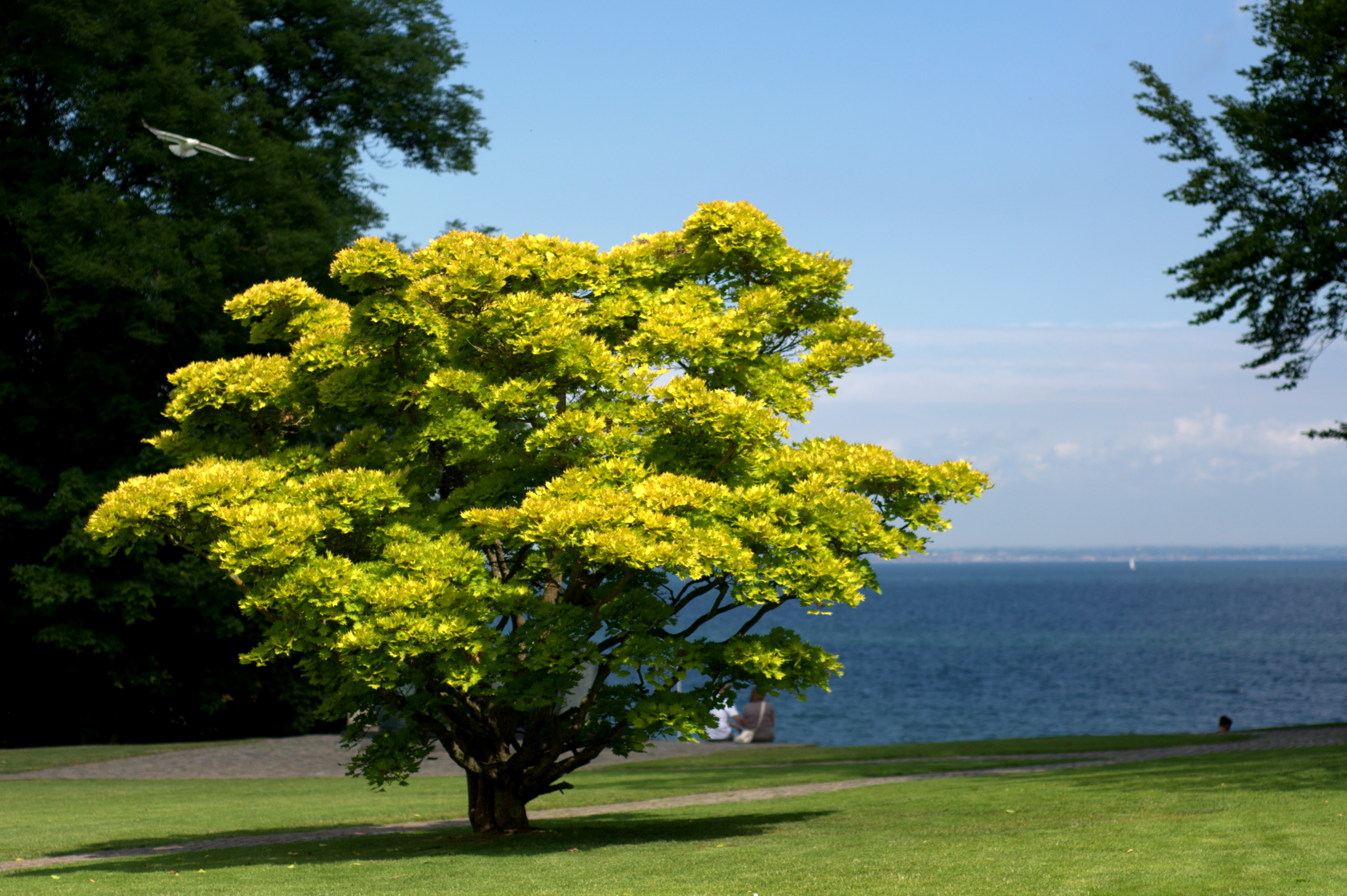 Lousiana Art Museum, Humlebaek, Denmark The Louisiana Museum of Modern Art is an art museum located directly on the shore of the Øresund Sound in Humlebæk, 35 km (22 mi) north of Copenhagen, Denmark. It is the most visited art museum in Denmark[2] with an